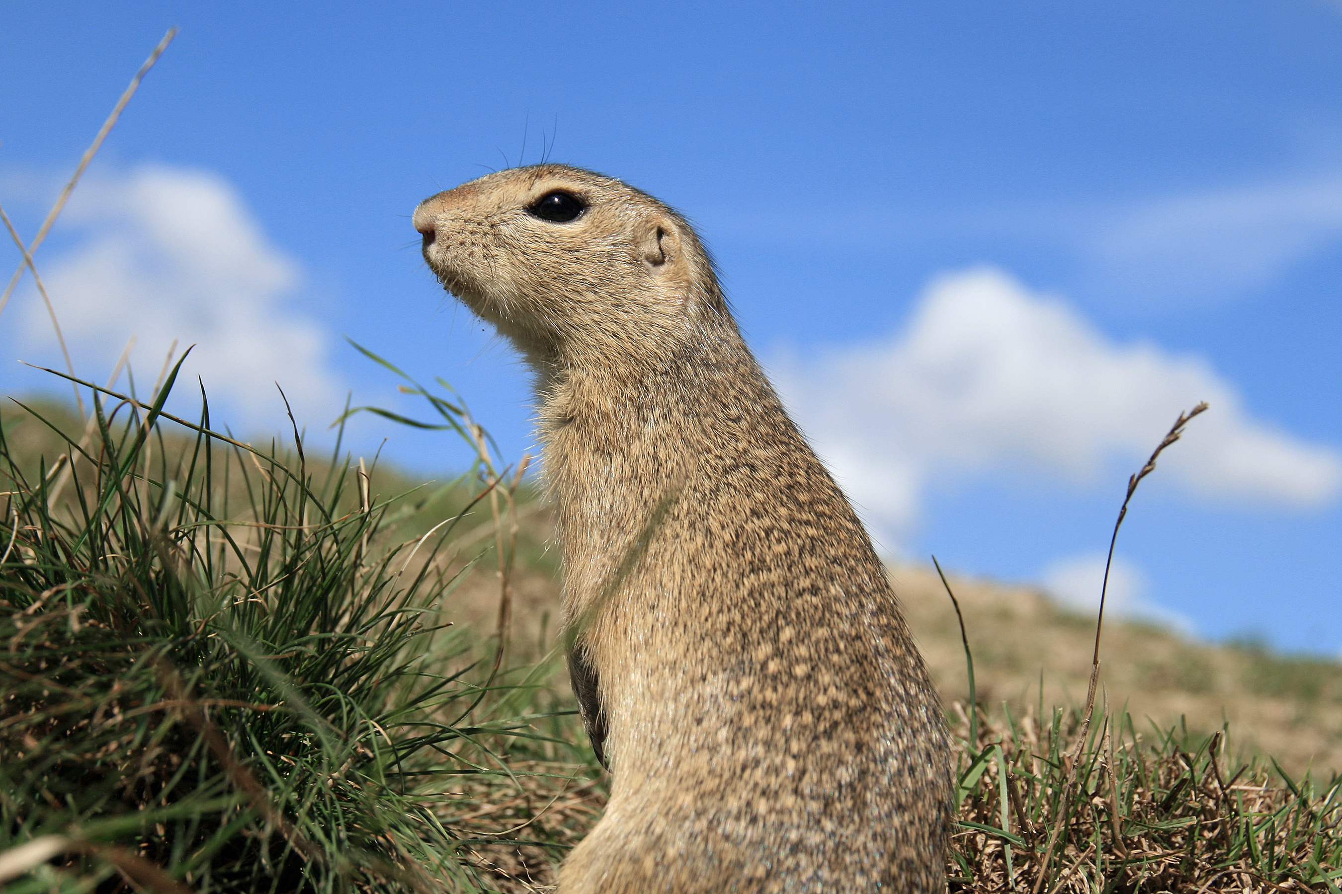 European ground squirrel (Spermophilus citellus) at Danube-Auen National Park (Orth an der Donau, Austria). This file shows the National Park Donau-Auen in Austria.